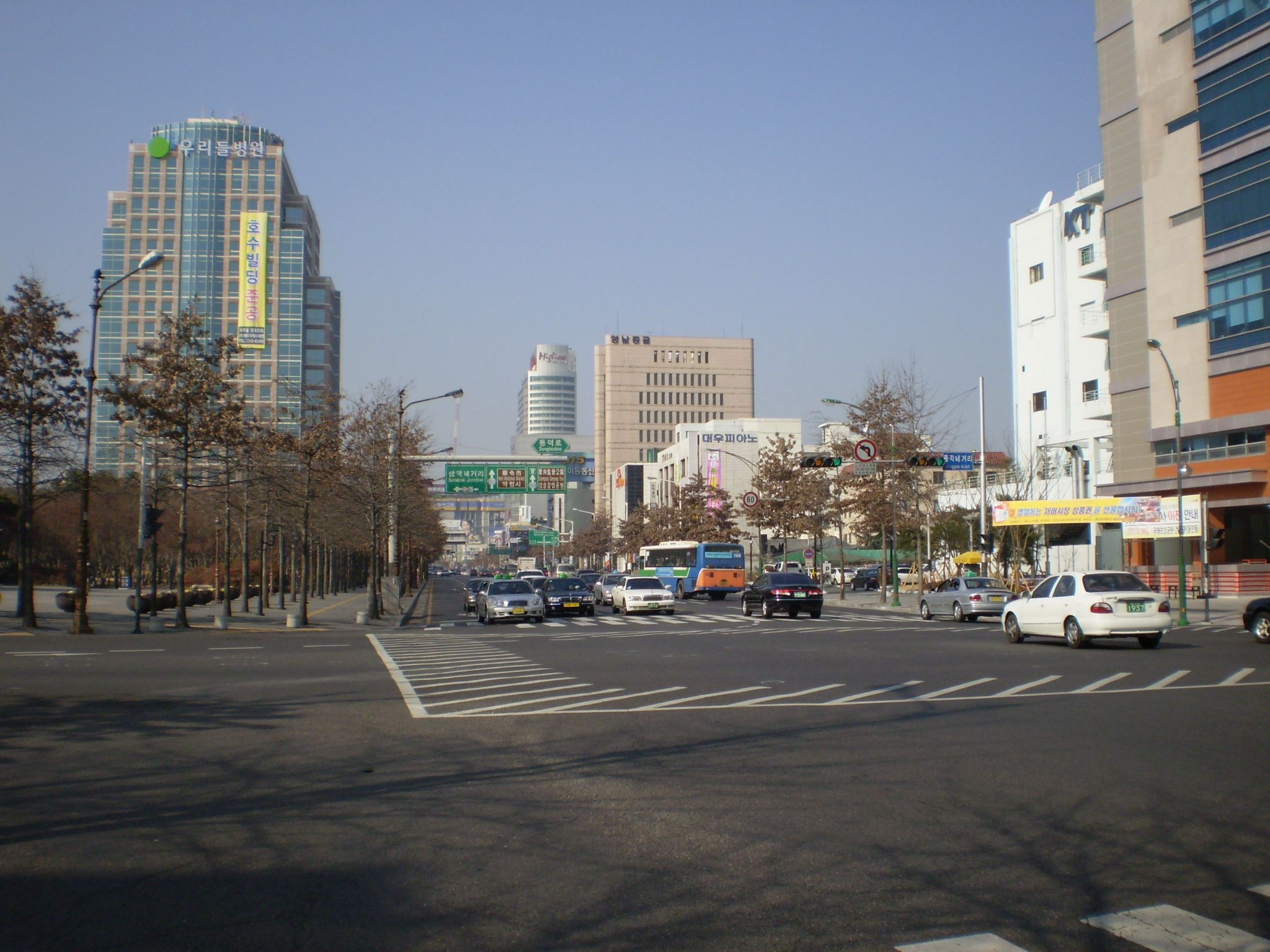 A major street leading west into downtown Daegu, South Korea. The Migliore building is on the right.